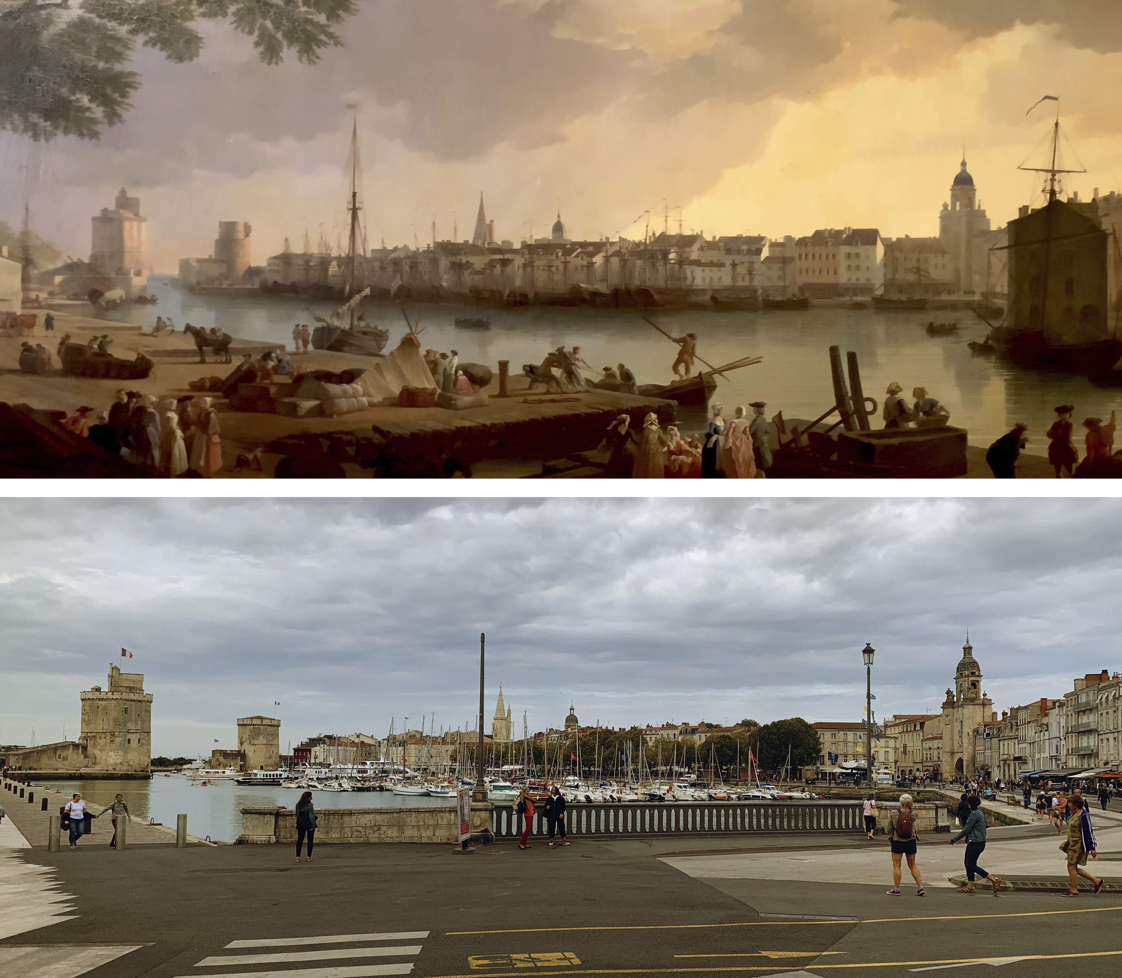 Detail from Le port de La Rochelle painted by Claude-Joseph Vernet in 1762, and the same view photographed in 2019